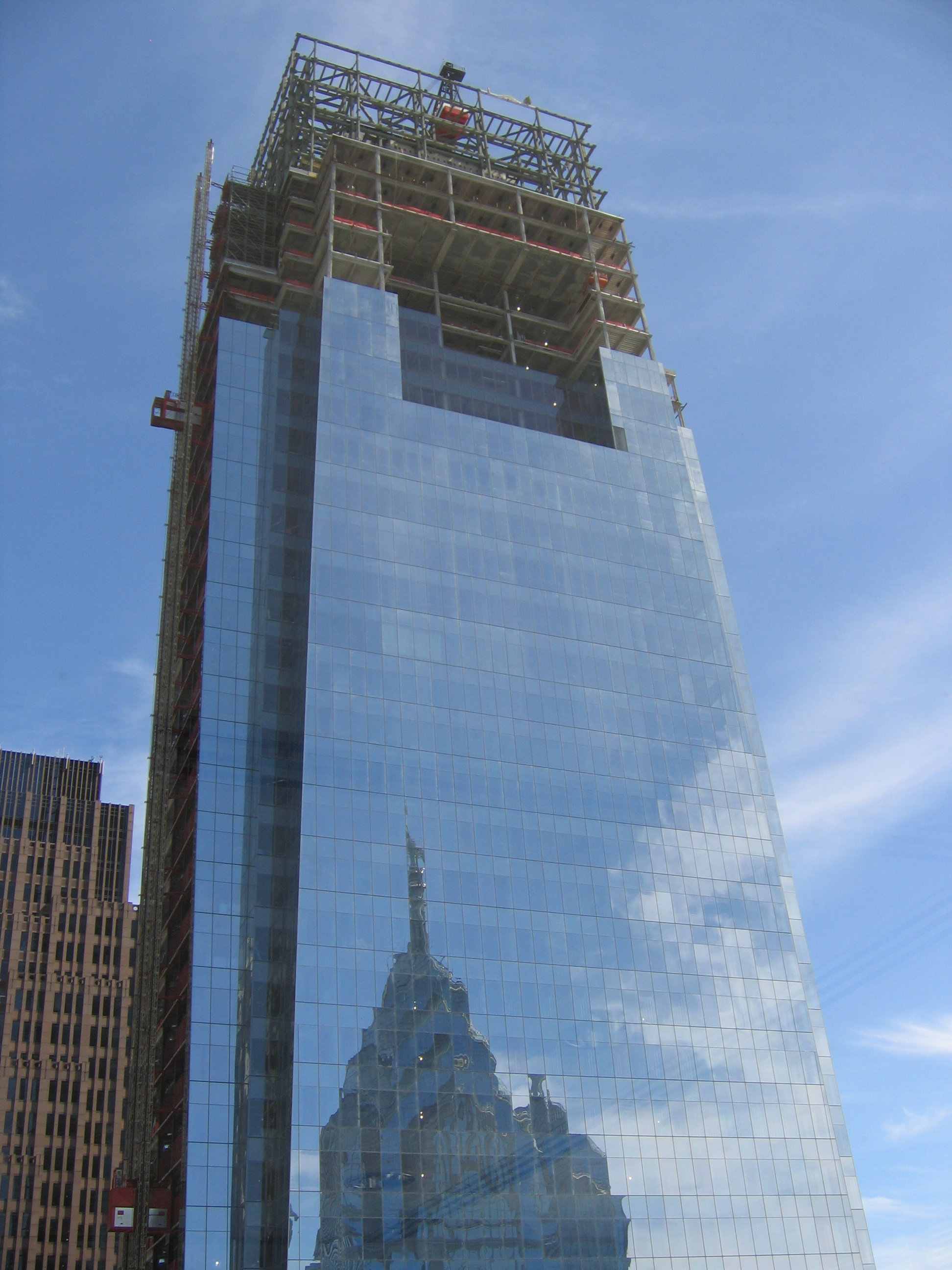 The south elevation of Comcast Center in Philadelphia, Pennsylvania The Comcast Center, still undergoing construction, is now the tallest building in Philadelphia. The top of One Liberty Place (which the Comcast Center surpassed as tallest building in the city) is reflected in the glass.